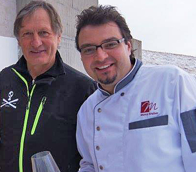 Marco Krainer (right) with champion alpine ski racer Franz Klammer at a culinary sports event in Bad Kleinkirchheim, Austria